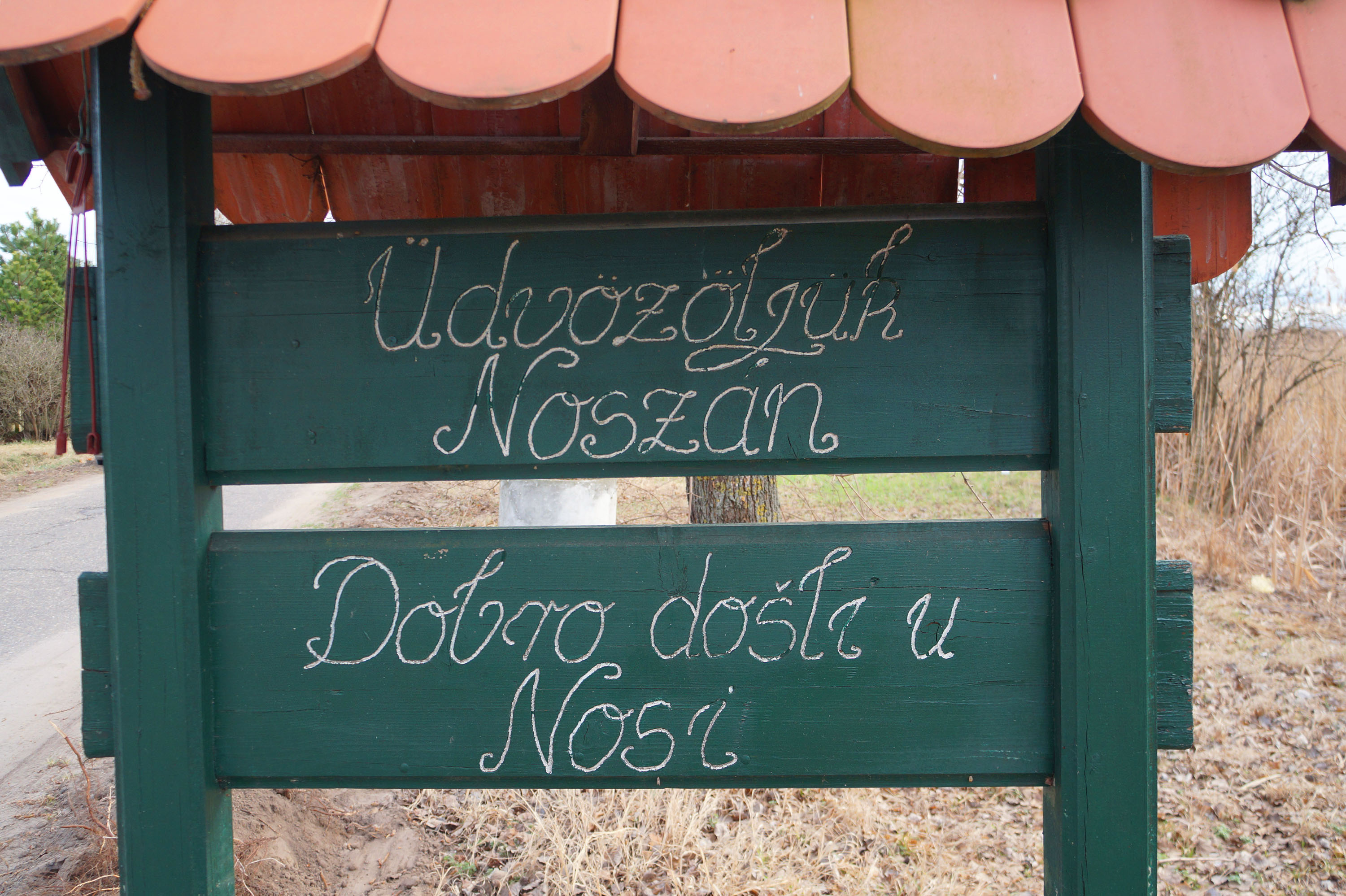 Welcome-board of the hamlet Nosa in Serbia. The text "Welcome to Nosa/Nosza" is written it two languages, Hungarian and Serbain (the village is mostly Hungarian).